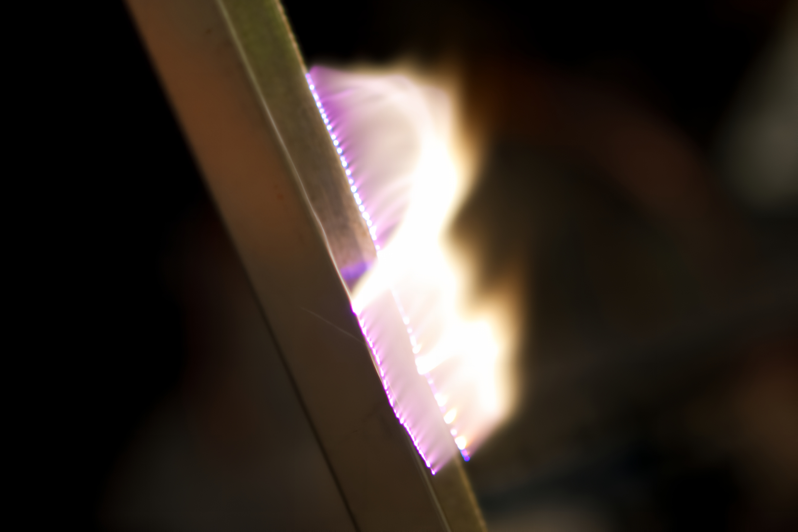 Close-up of a plasma between the two electrodes of a Jacob's Ladder.